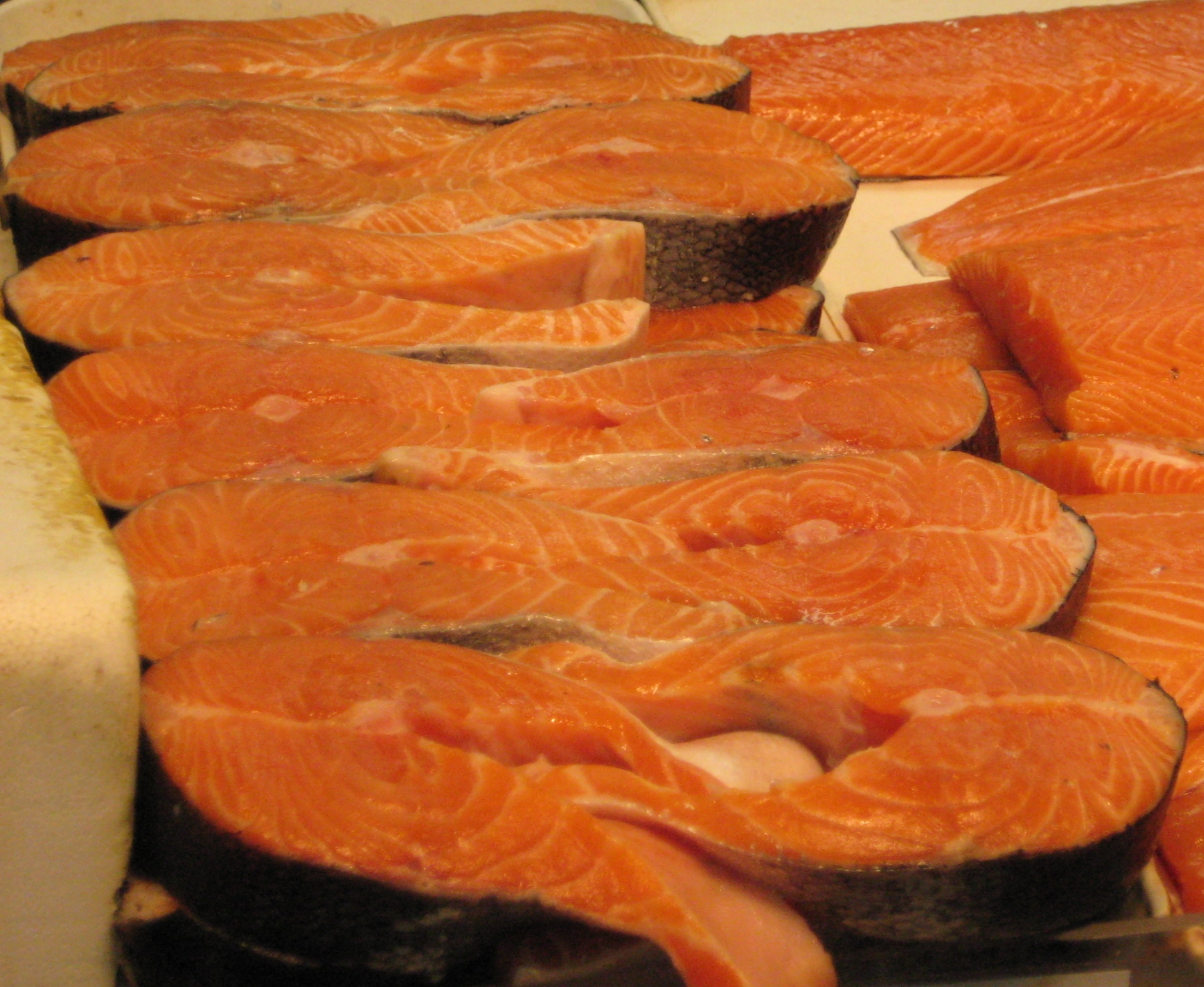 Salmon intended for consumption as food